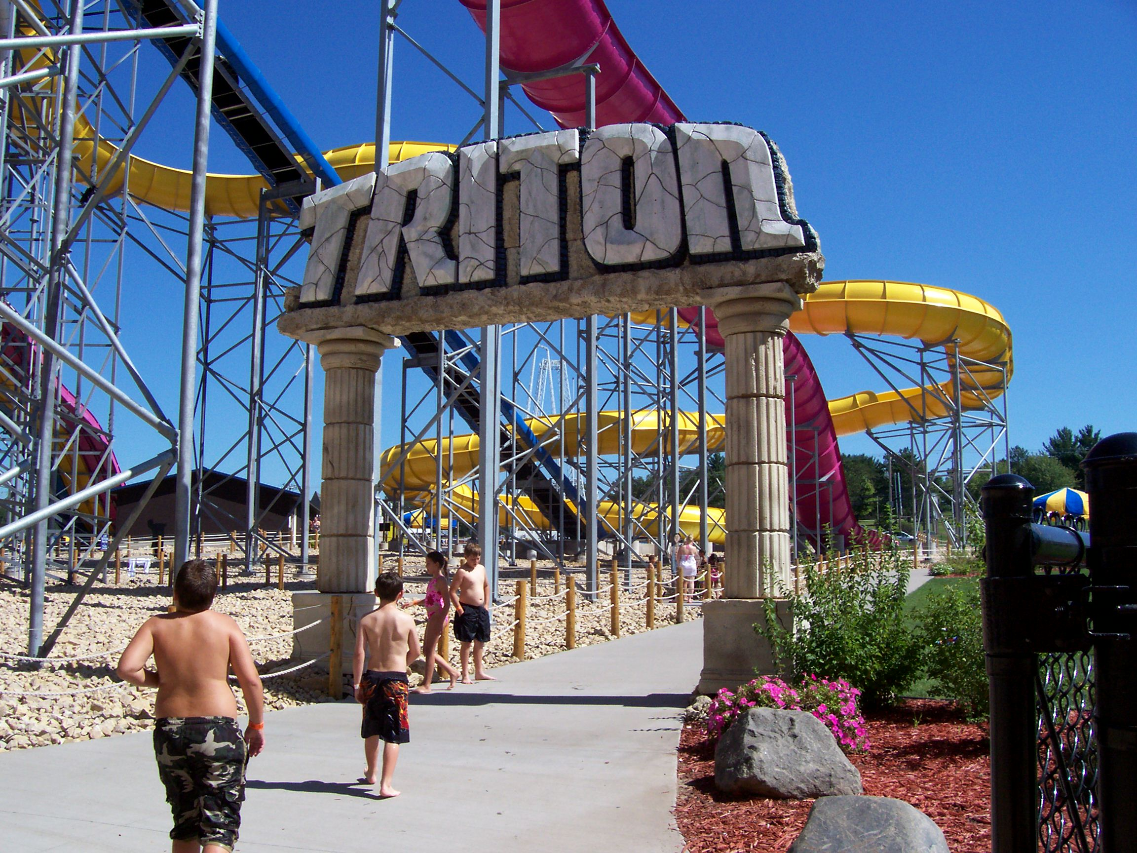 The entrance to the Triton water slide at Mt. Olympus Water & Theme Park in Wisconsin Dells, Wisconsin, USA. Taken September 2, 2007 by myself.